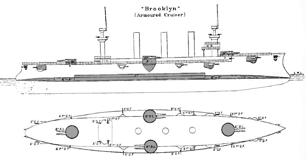 The armoured cruiser USS Brooklyn.